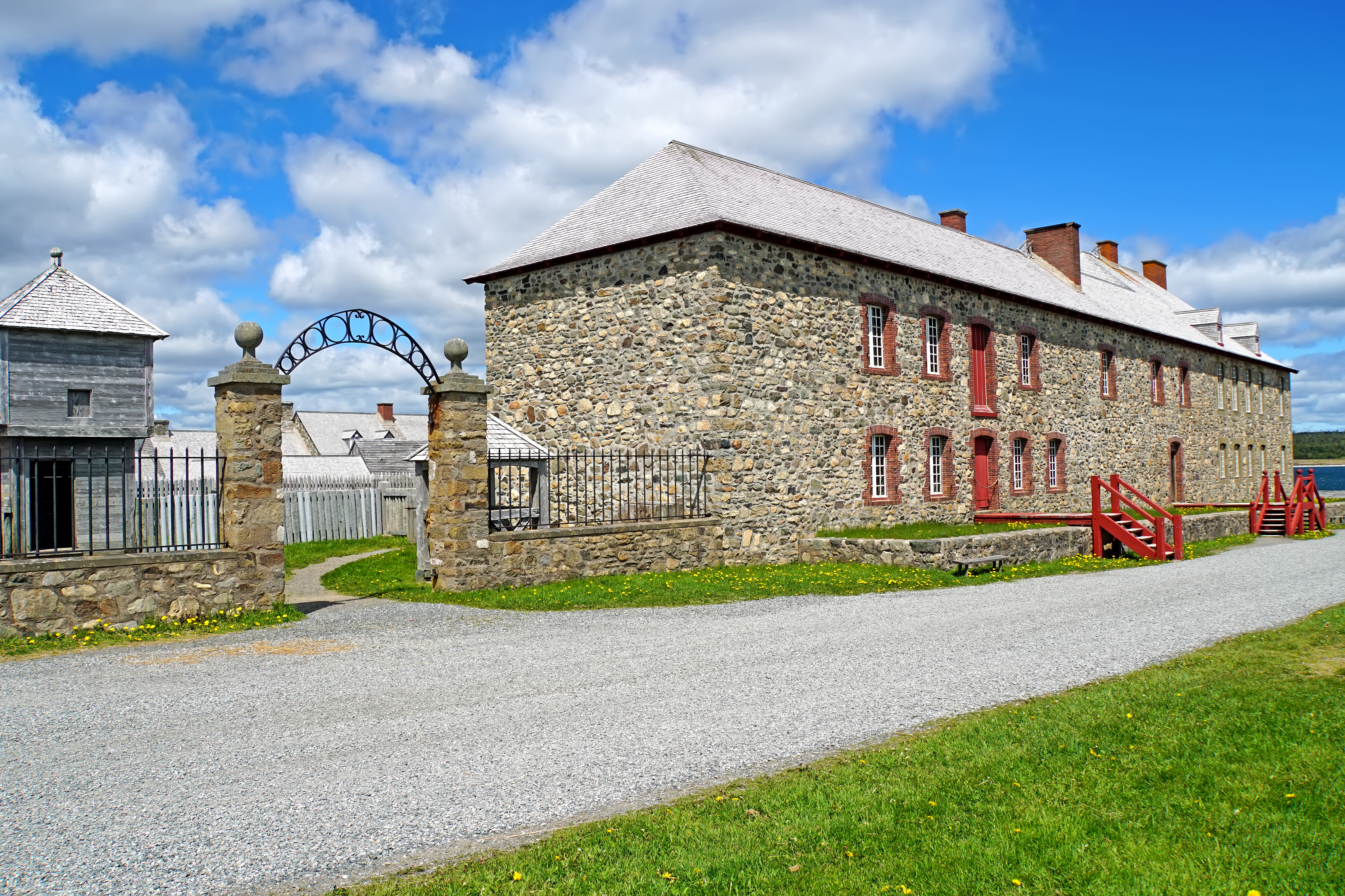 PLEASE, NO invitations or self promotions, THEY WILL BE DELETED. My photos are FREE to use, just give me credit and it would be nice if you let me know, thanks. Commissaire-Ordonnateur's Property - In the offices overlooking the quay, the administrator and his clerks filled up books correspondence, maintained the colonial accounts, and compiled their statistical reports for the Ministry of Marine.